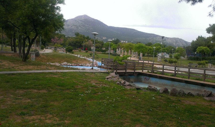 thrakomakedones